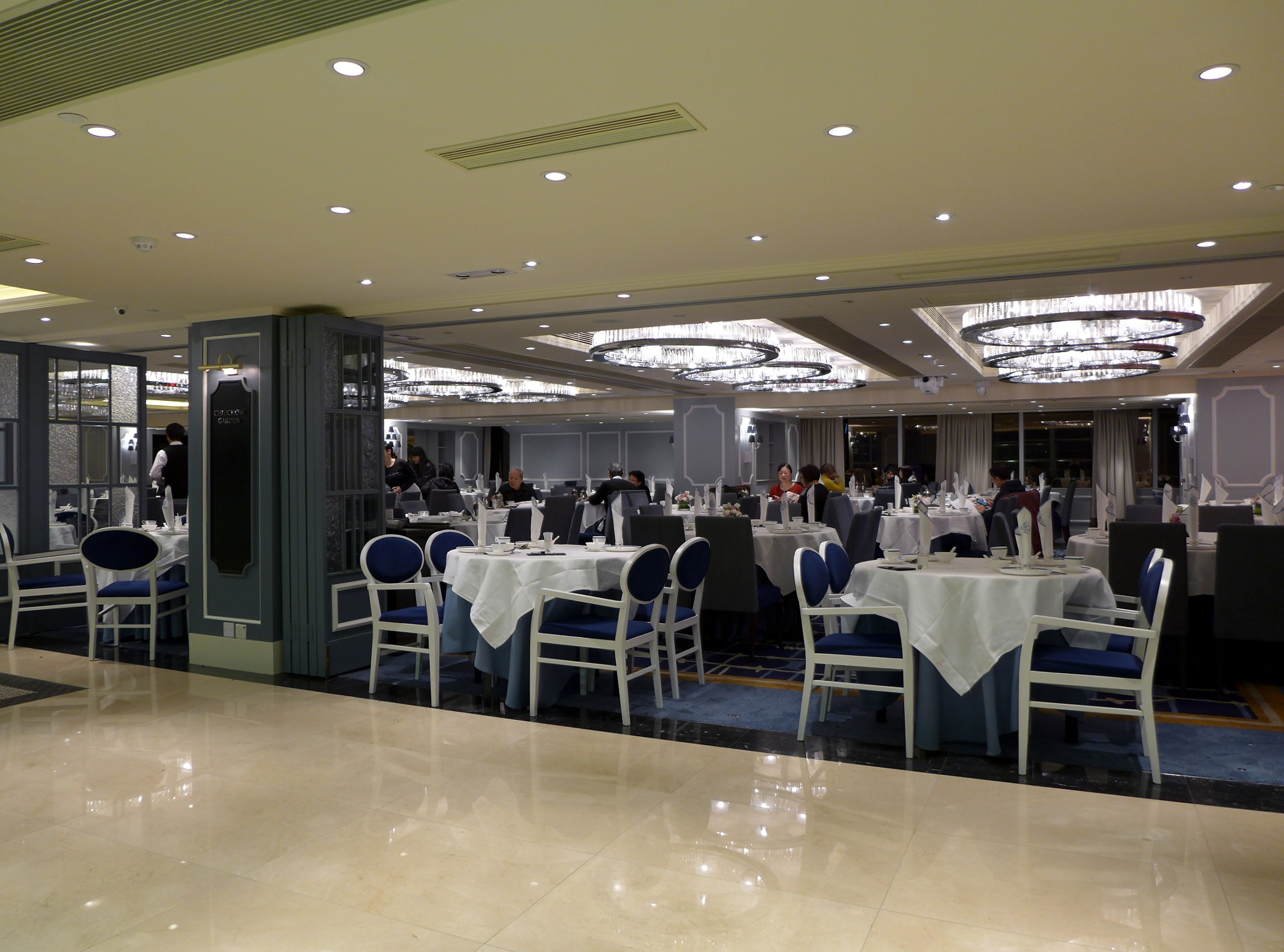 Chiu Chow Garden, New Town Plaza